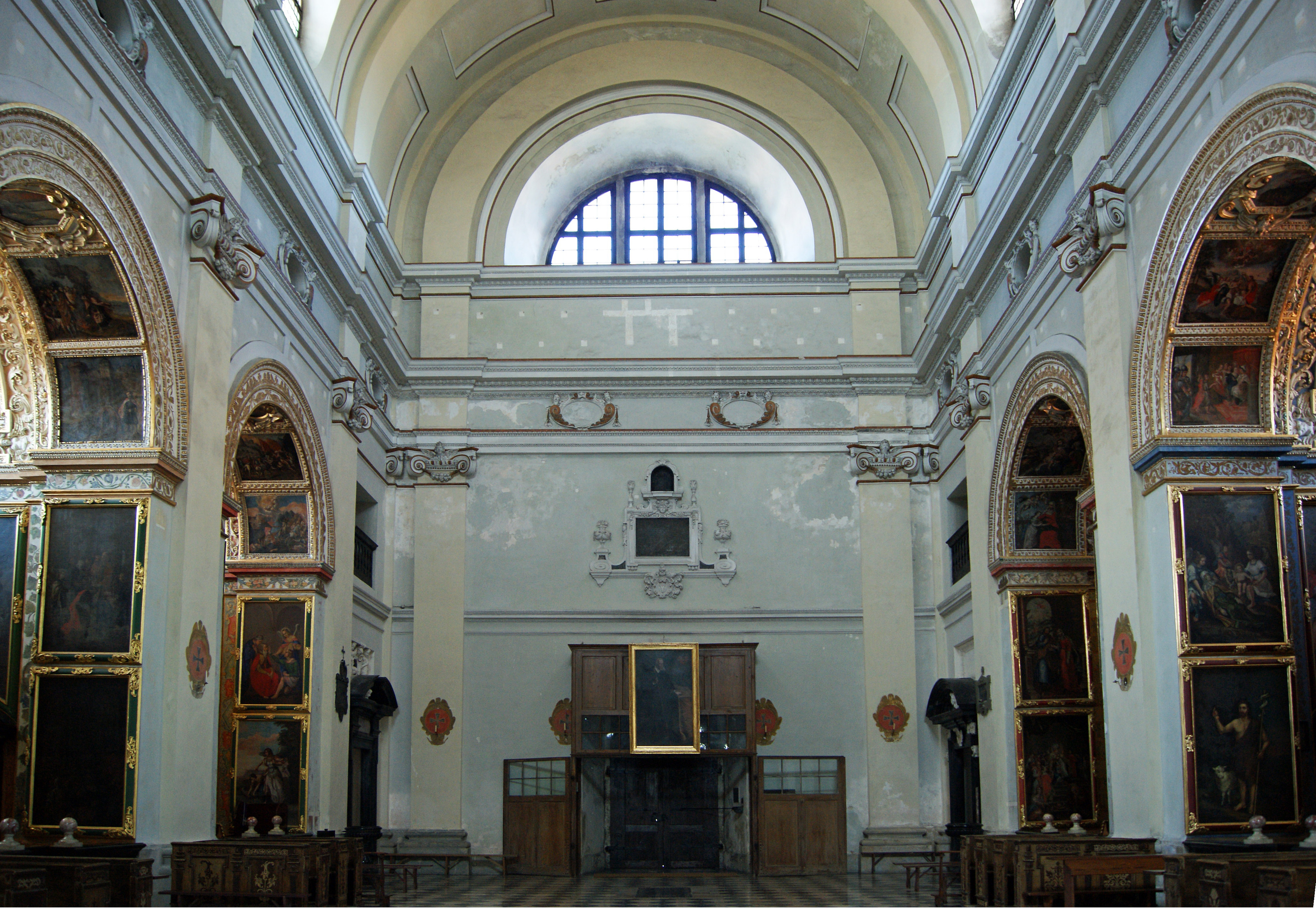 Church of Our Lady Assumed into Heaven (Camaldolese)-interiorW, 1 Konarowa Av, Bielany, Krakow, Poland